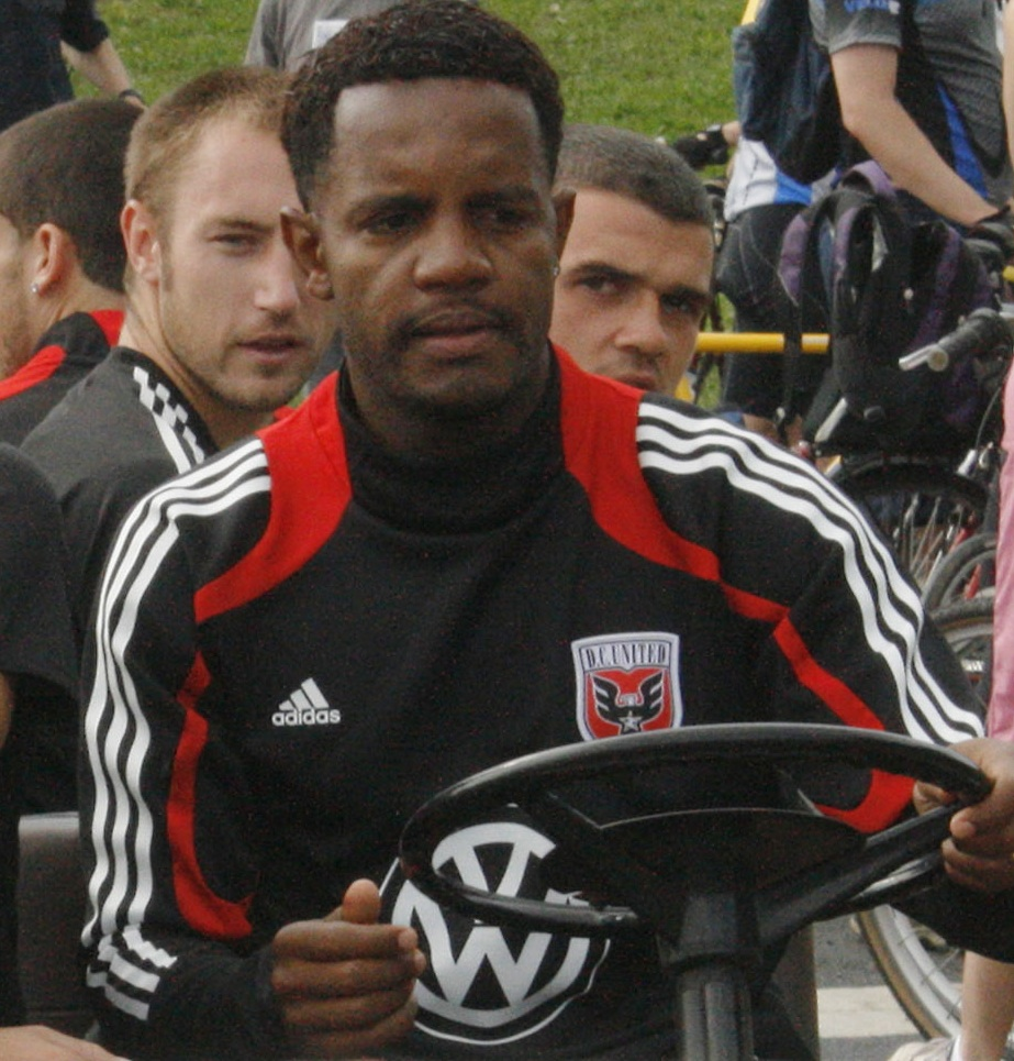 This file has been extracted from another file: Emilio driving golf cart.jpg Emilio Luciano of DC United